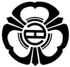 Shikama Miyagi chapter